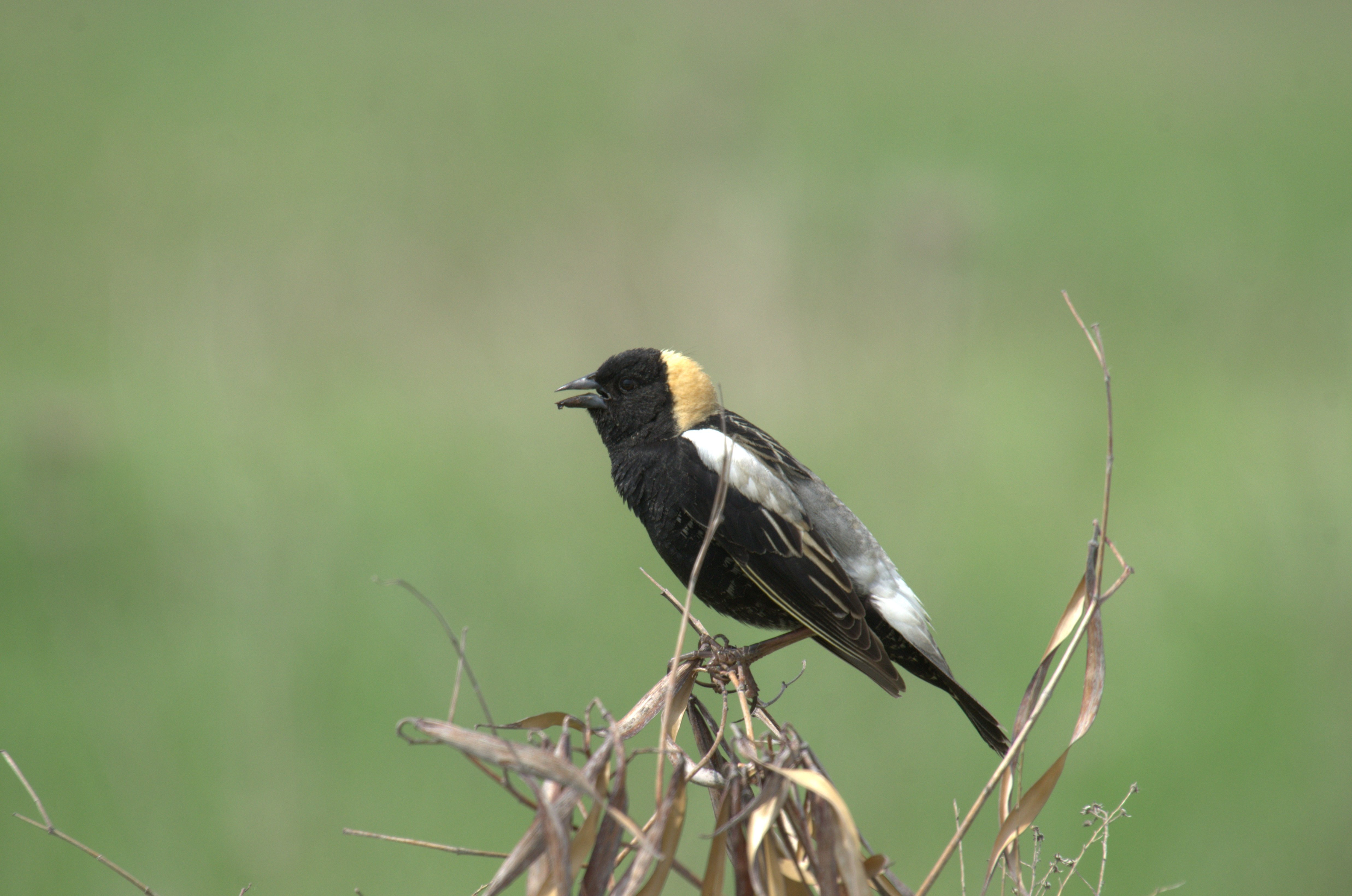 Glacial Park Ringwood, IL